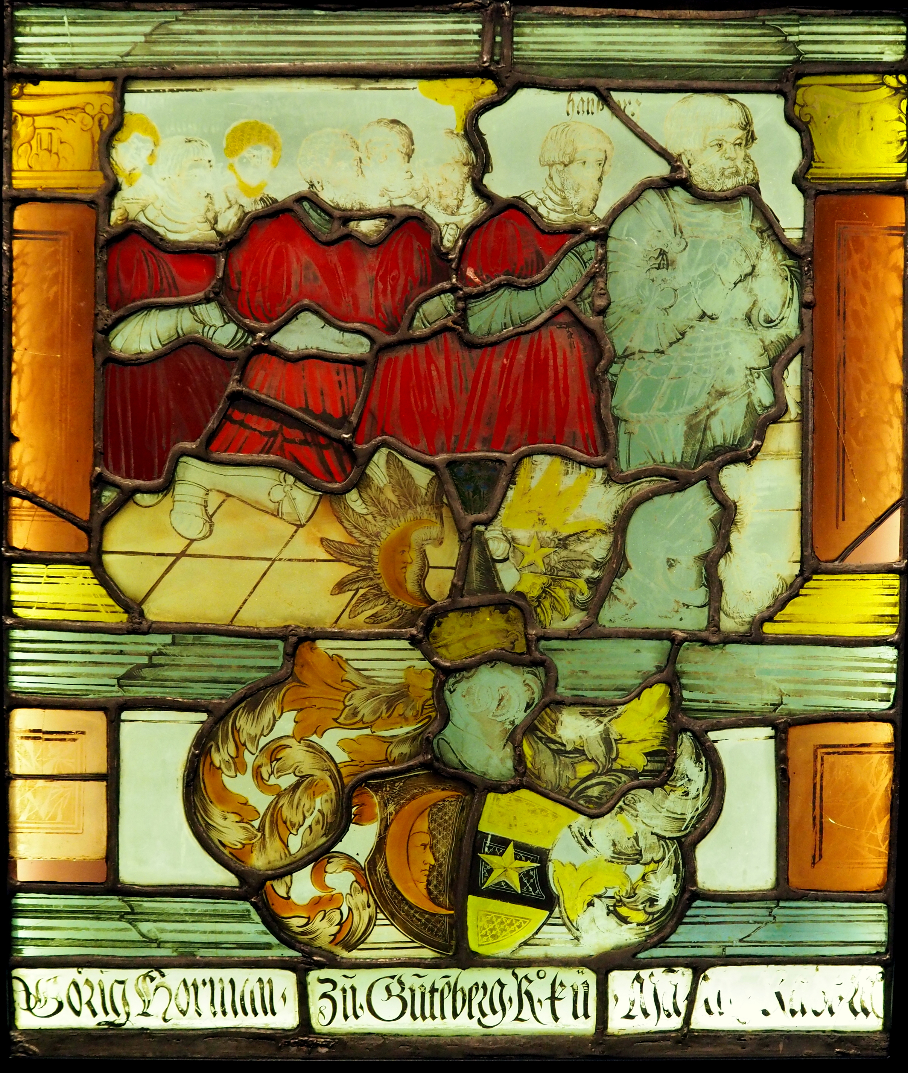 Stained glass window from Gutenberg village church, now in the Stadtmuseum Kaufbeuren. Depicted are Georg Hörmann von und zu Gutenberg (1491–1552, on the far right) with this sons Johann Georg (1513–1562), Christoph (1514–1586), Ludwig (1515–1588), Bernhard (1518/1518), Rudolph (1519–1520), Matthäus (1520–1541) and Anton (1522–1594). Georg Hörmann (1491–1552) was patrician and citizen of Kaufbeuren, chief factor of Jakob Fugger and Anton Fugger, couselor to King Ferdinand I. and Lord of Gutenberg manor in nowadays Ostallgäu.